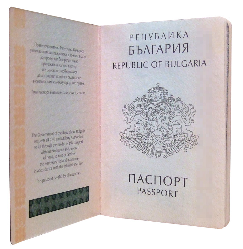 The title pages of a contemporary Bulgarian passport.